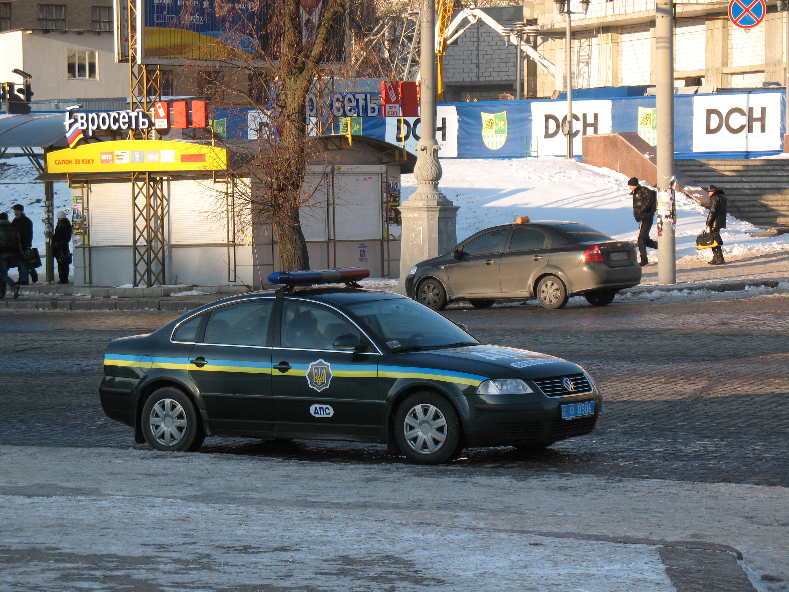 Kharkov city. DPS Kharkov: Volkswagen Passat B5 on traffic police.